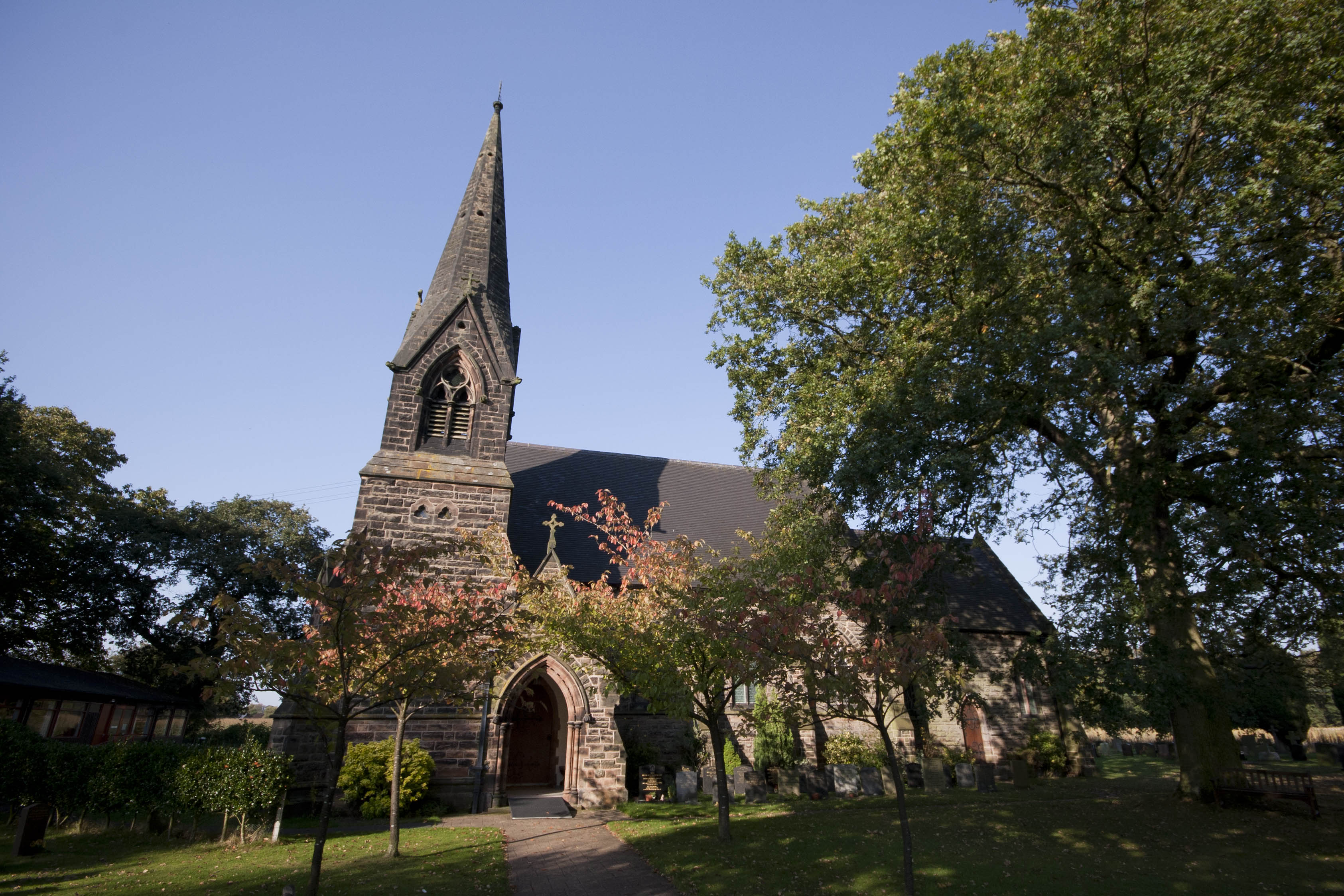 Parish church of St John the Evangelist, Toft, Cheshire, seen from the south